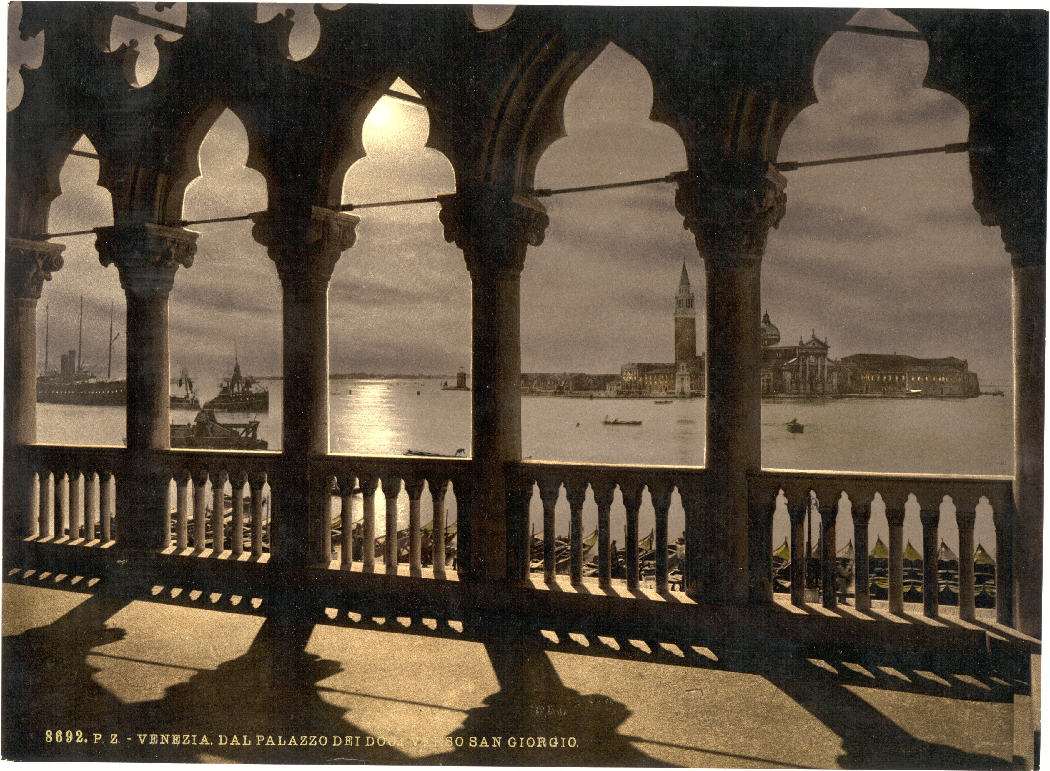 Print no. "8692".; More information about the Photochrom Print Collection is available at Forms part of: Views of architecture and other sites in Italy in the Photochrom print collection.; Title from the Detroit Publishing Co., Catalogue J-foreign section, Detroit, Mich. : Detroit Publishing Company, 1905.